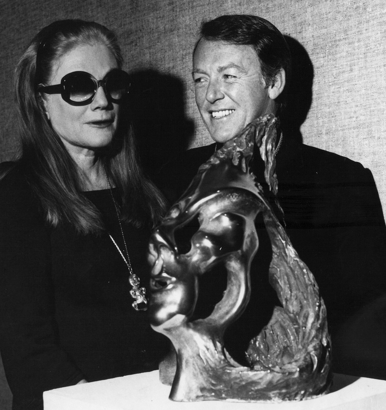 Cropped image of Sarah Churchill (left) and sculptor Colin Webster-Watson (right) with a sculpture. New York. 1975.